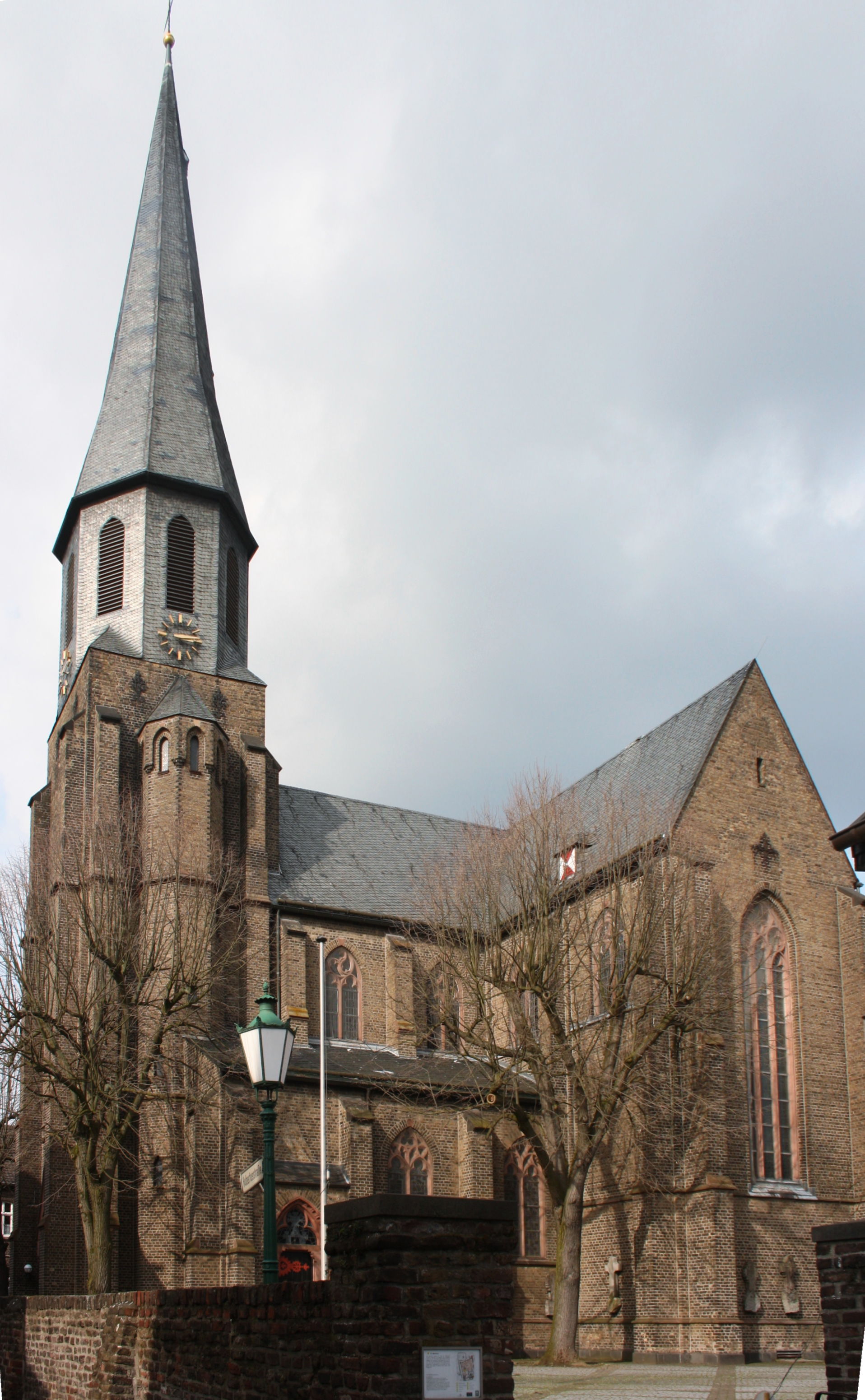 Dormagen-Zons, Germany. Parish church St. Martinus from South.